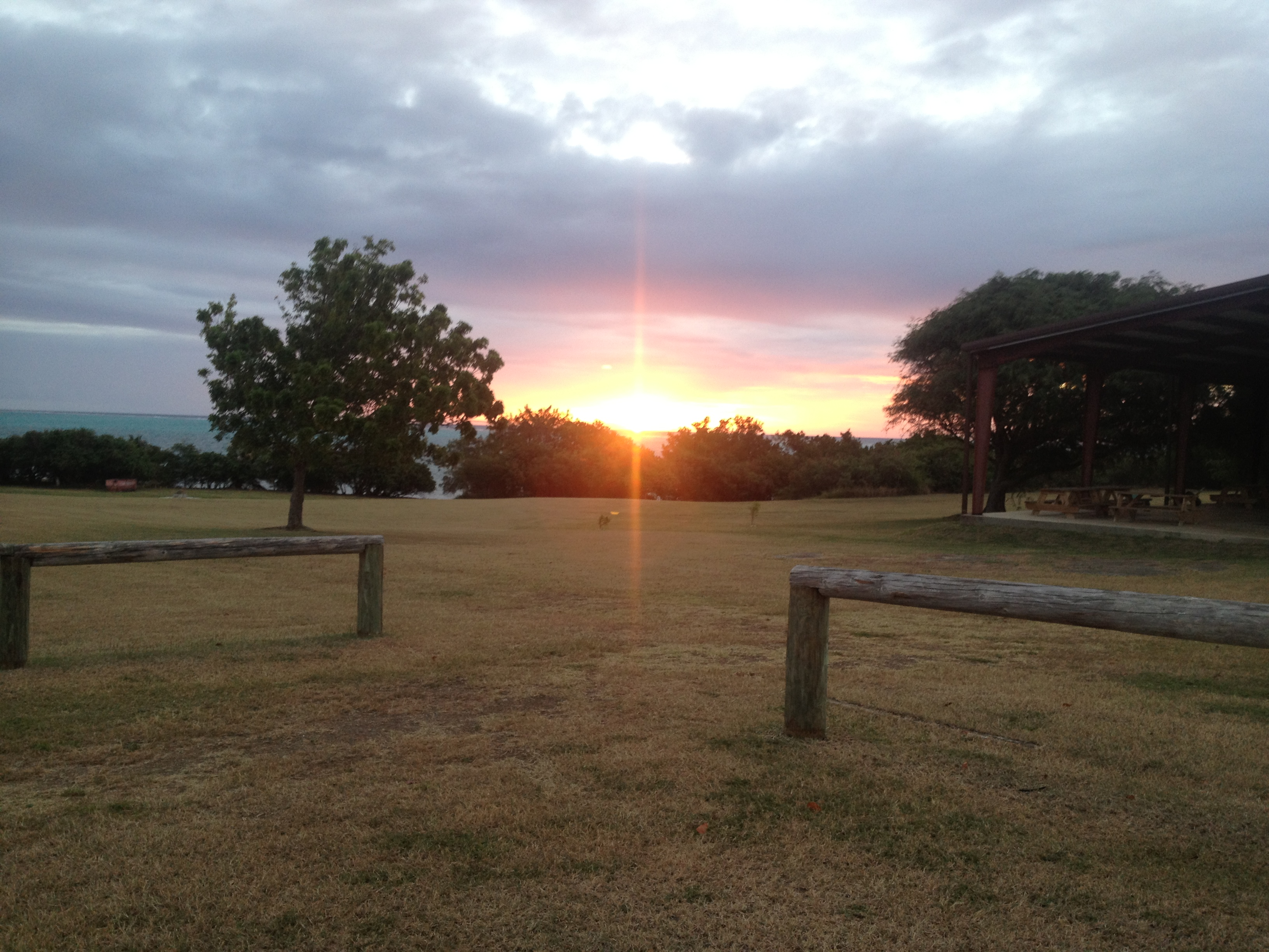 View of the Howard Wall Scout Camp, Fareham, Saint Croix, USVI